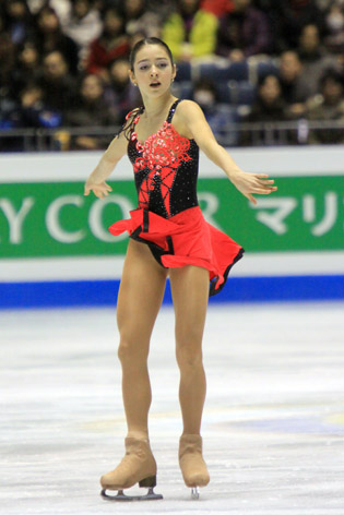 Anna Ovcharova at the 2009-2010 Junior Grand Prix Final.